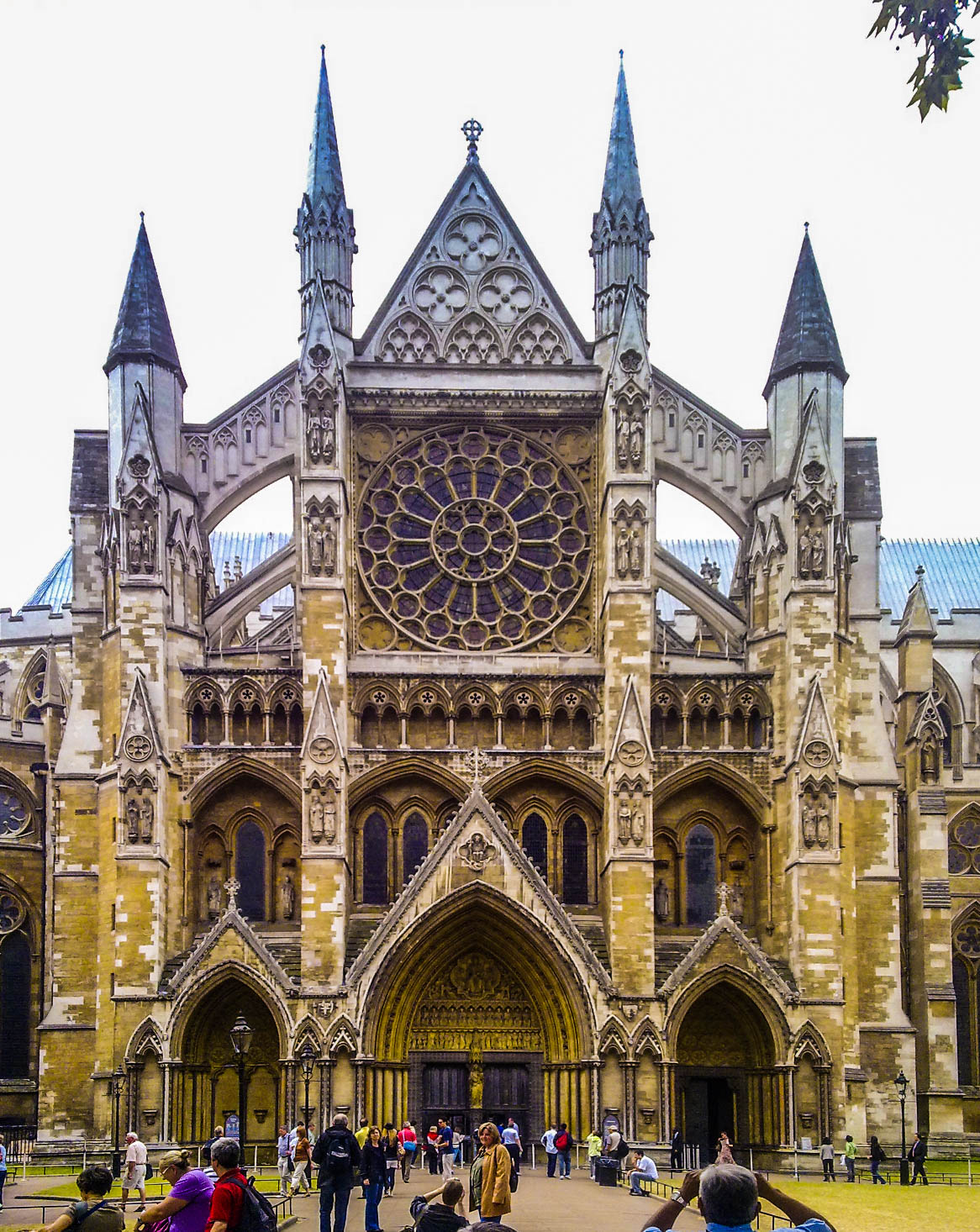 The north face of Westminster Abbey as viewed from just inside the grounds, off Broad Sanctuary.